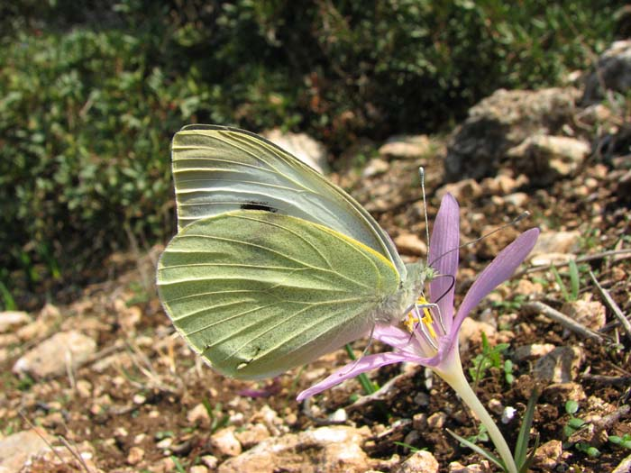 Pieris brassicae catoleuca Rober, 1896, foraging on Colchicum stevenii, Israel.